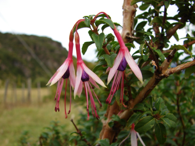 fuchsia magellanica var. eburnea en mañihuales